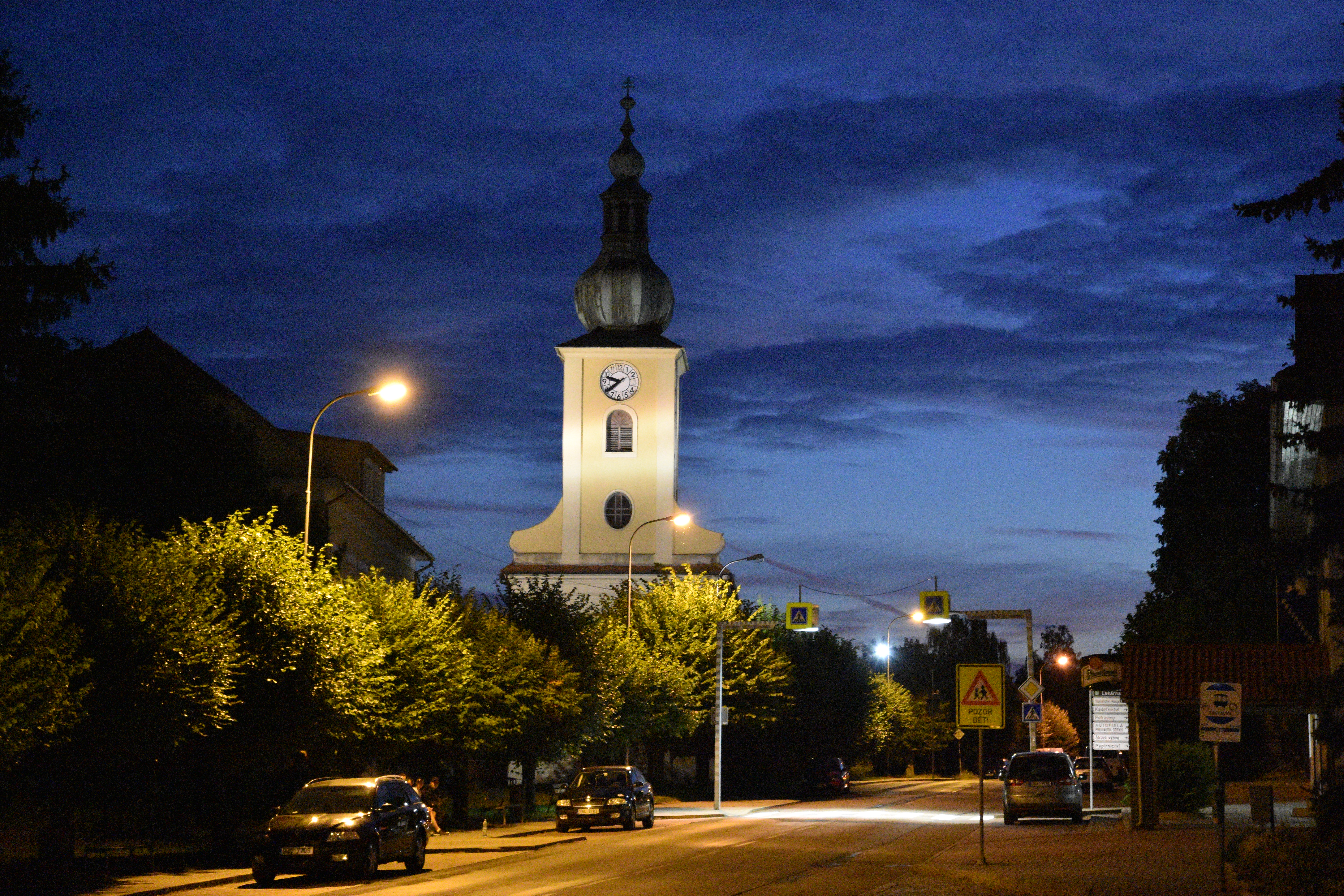 Church of Saints Peter and Paul Říčany, Brno-Country District